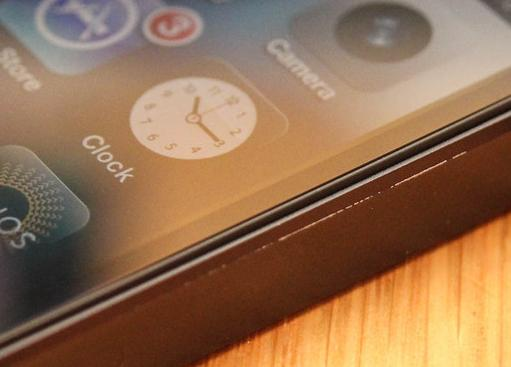 Black iPhone 5 frayed edges illustration.